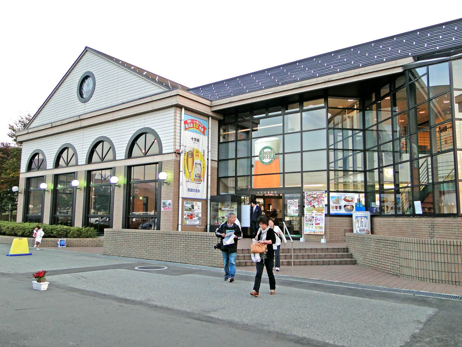 Unazuki Beer Hall at Michinoeki Unazuki in Kurobe City, Toyama Prefecture, Japan